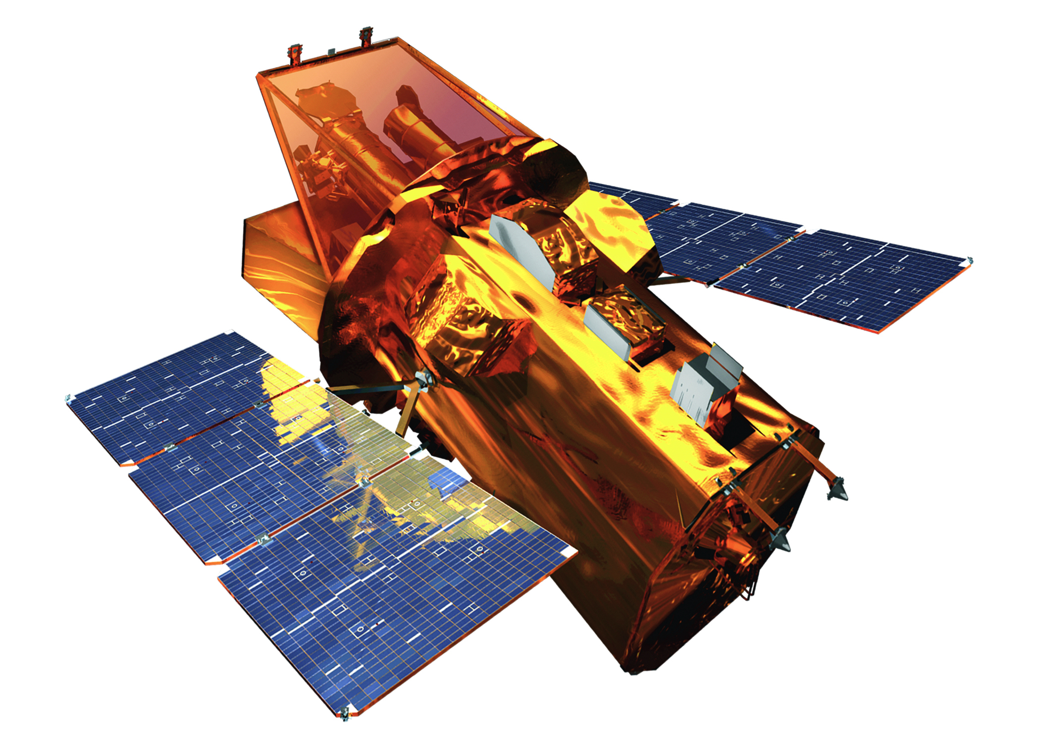 NASA's Swift Gamma Ray Burst Detecting Satellite